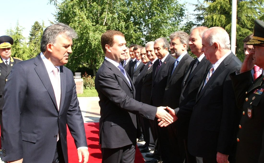 Turkish president Abdullah Gül and Russian president Dmitry Medvedev on state visit in Turkey.